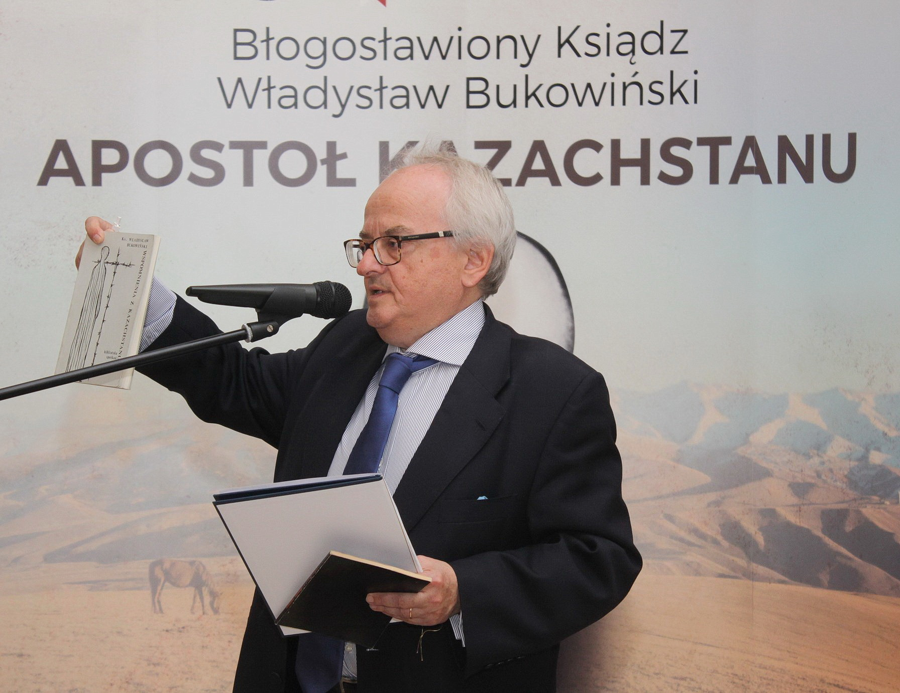 Piotr Jegliński during promotional meeting of the book "Wspomnienia z Kazachstanu" in Warsaw.